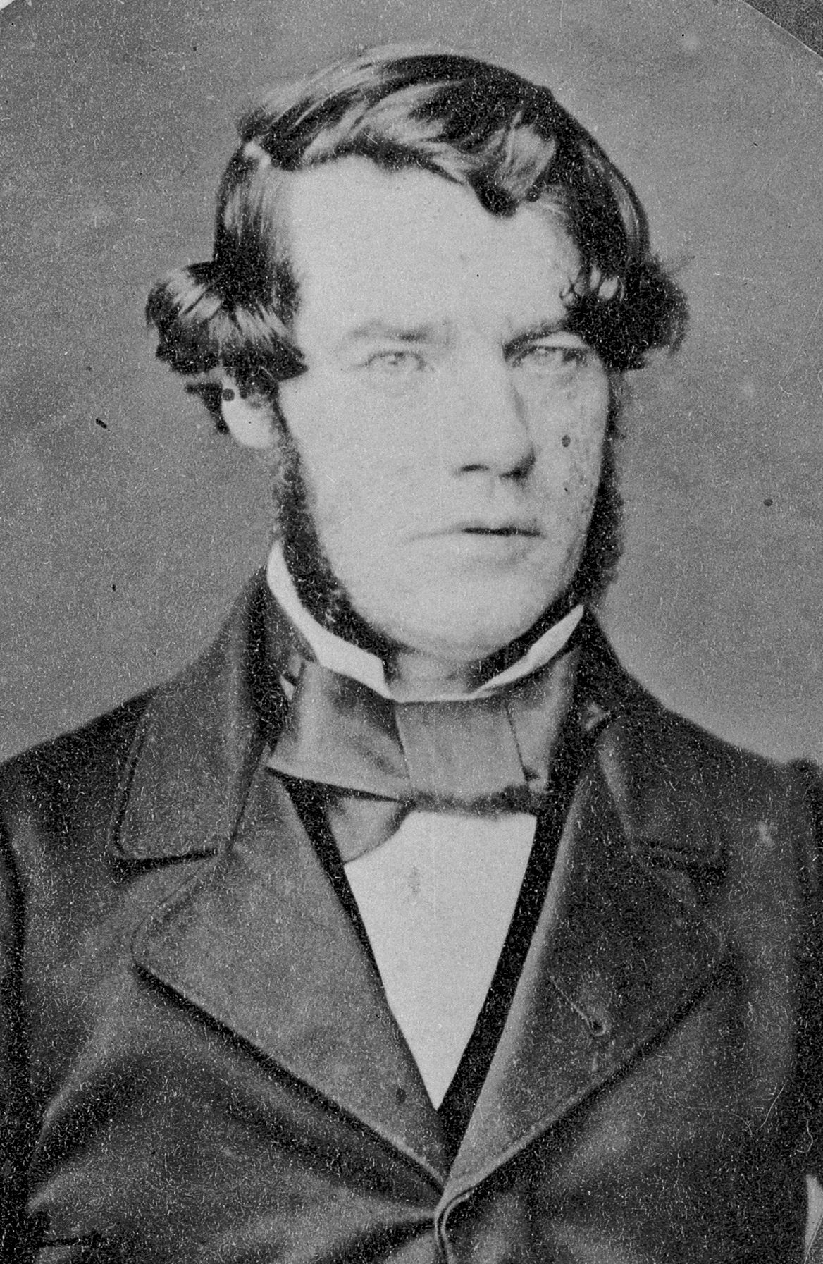 Shows John Williamson (New Zealand politician).